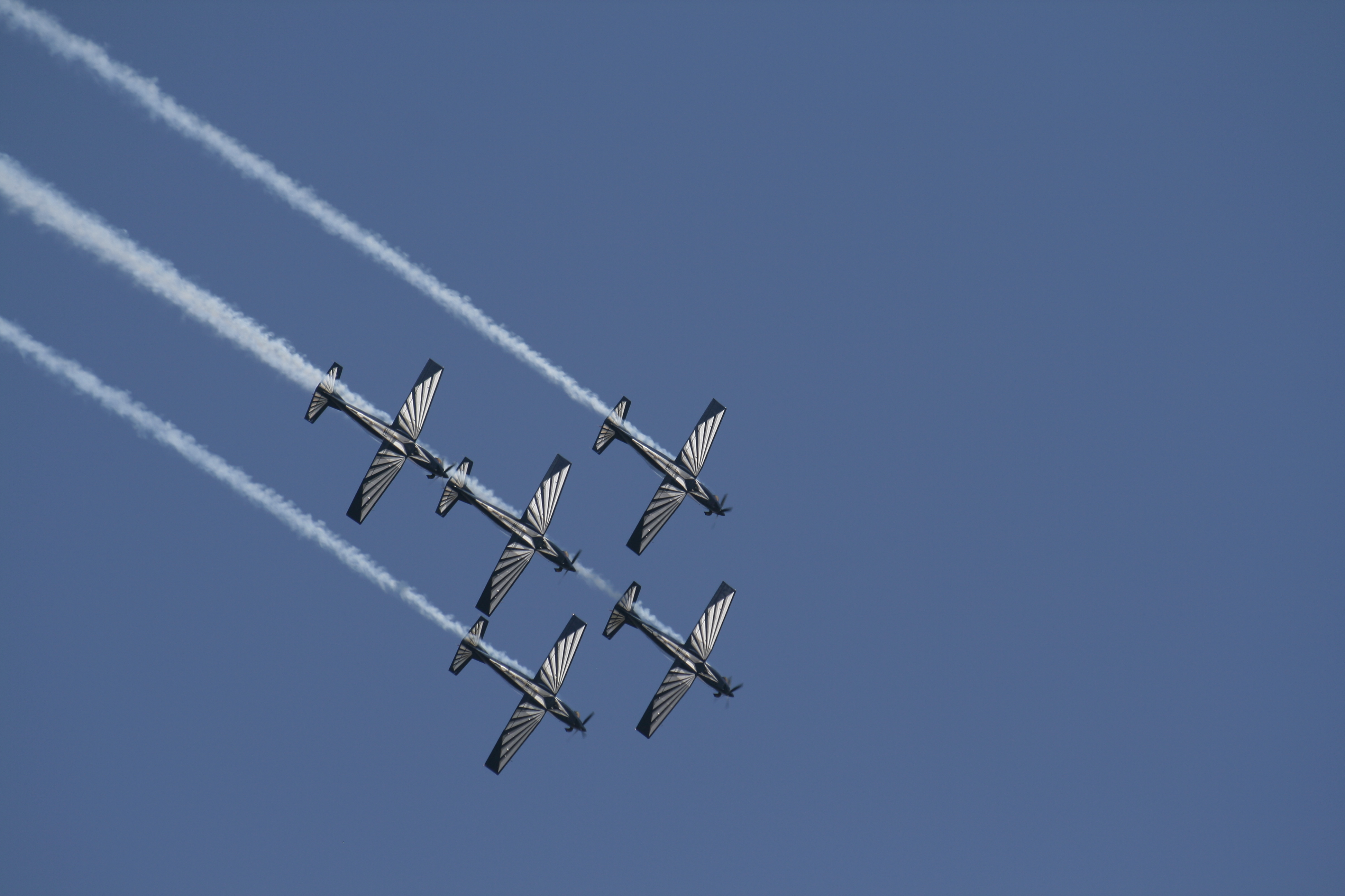 South African Air Force display team, the Silver Falcons in performing in the Pilatus PC-7